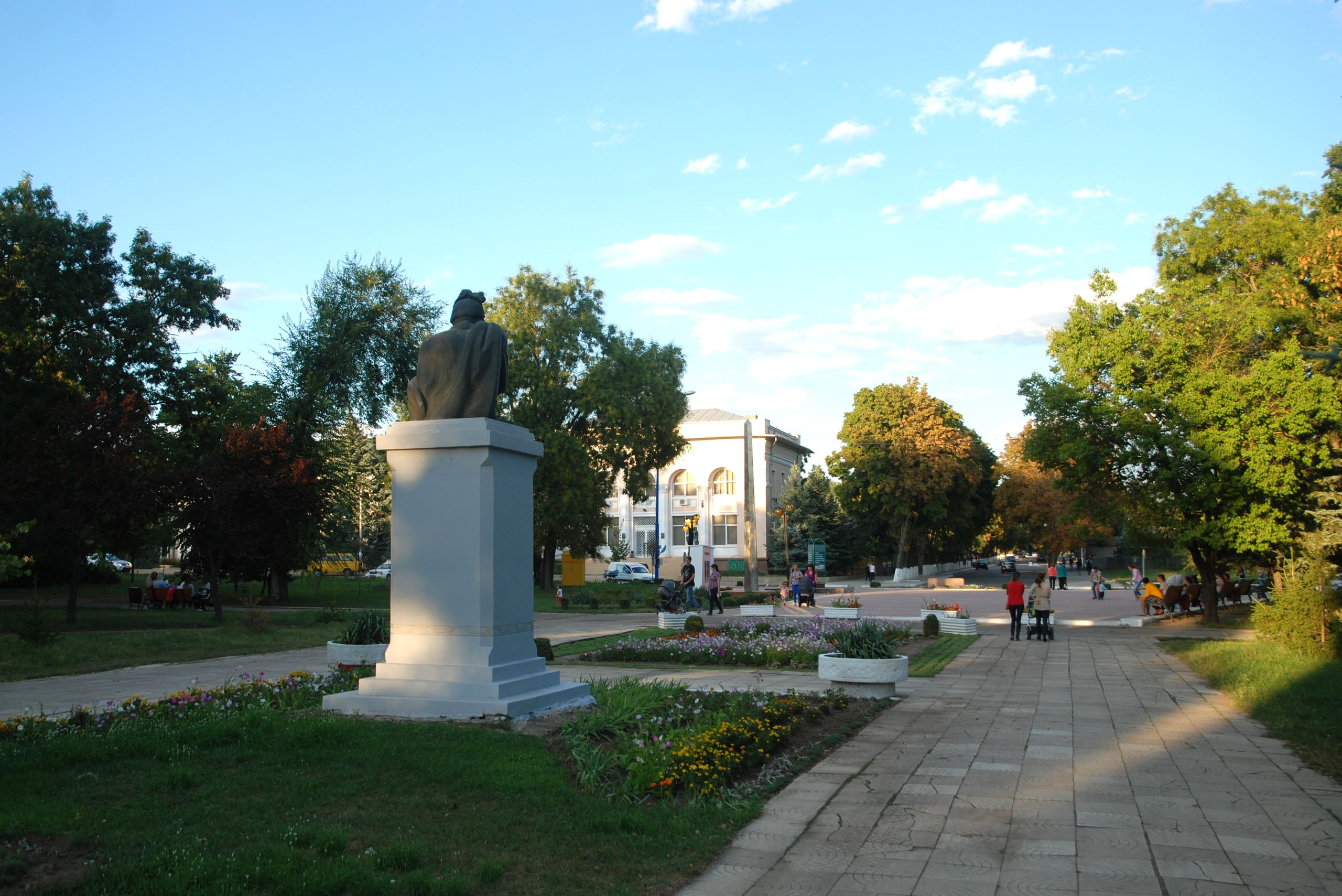 Cahul, park